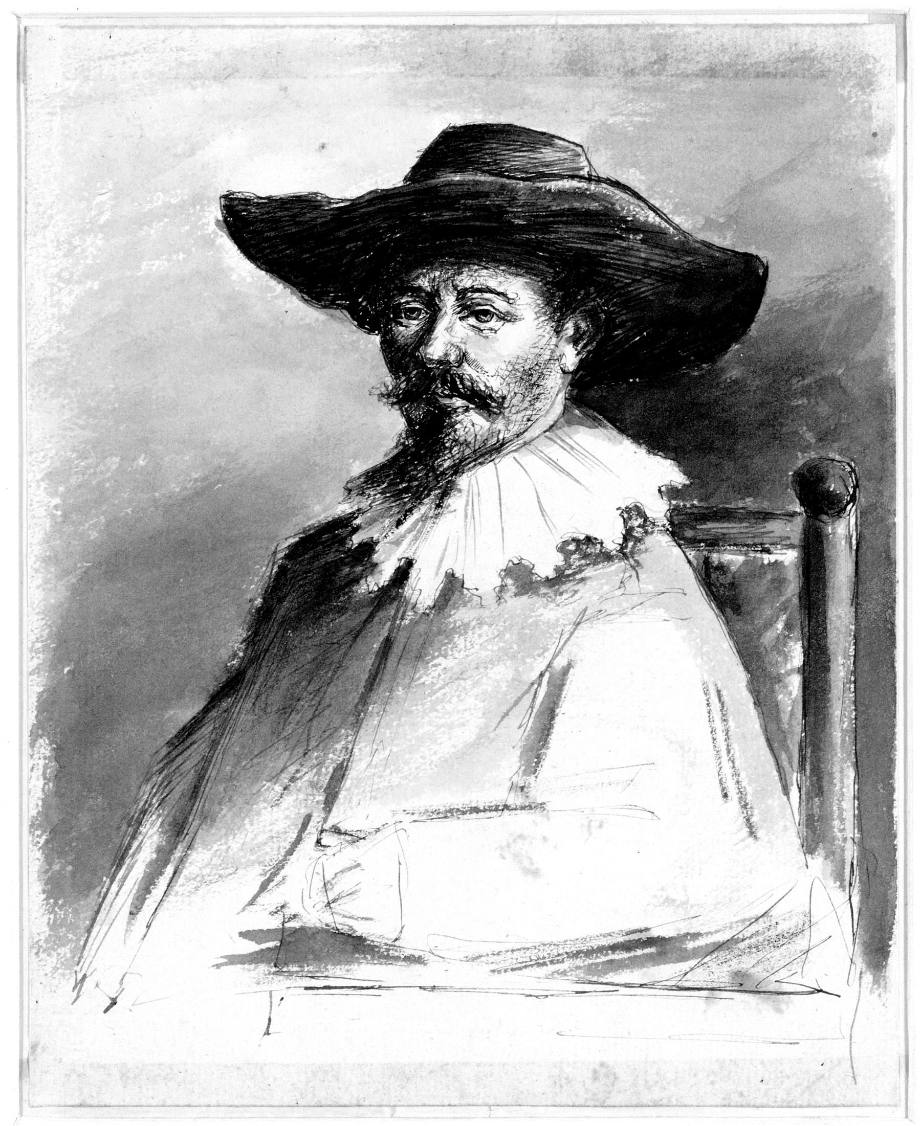 Lambert Doomer drawing ca 1623 - ca 1680